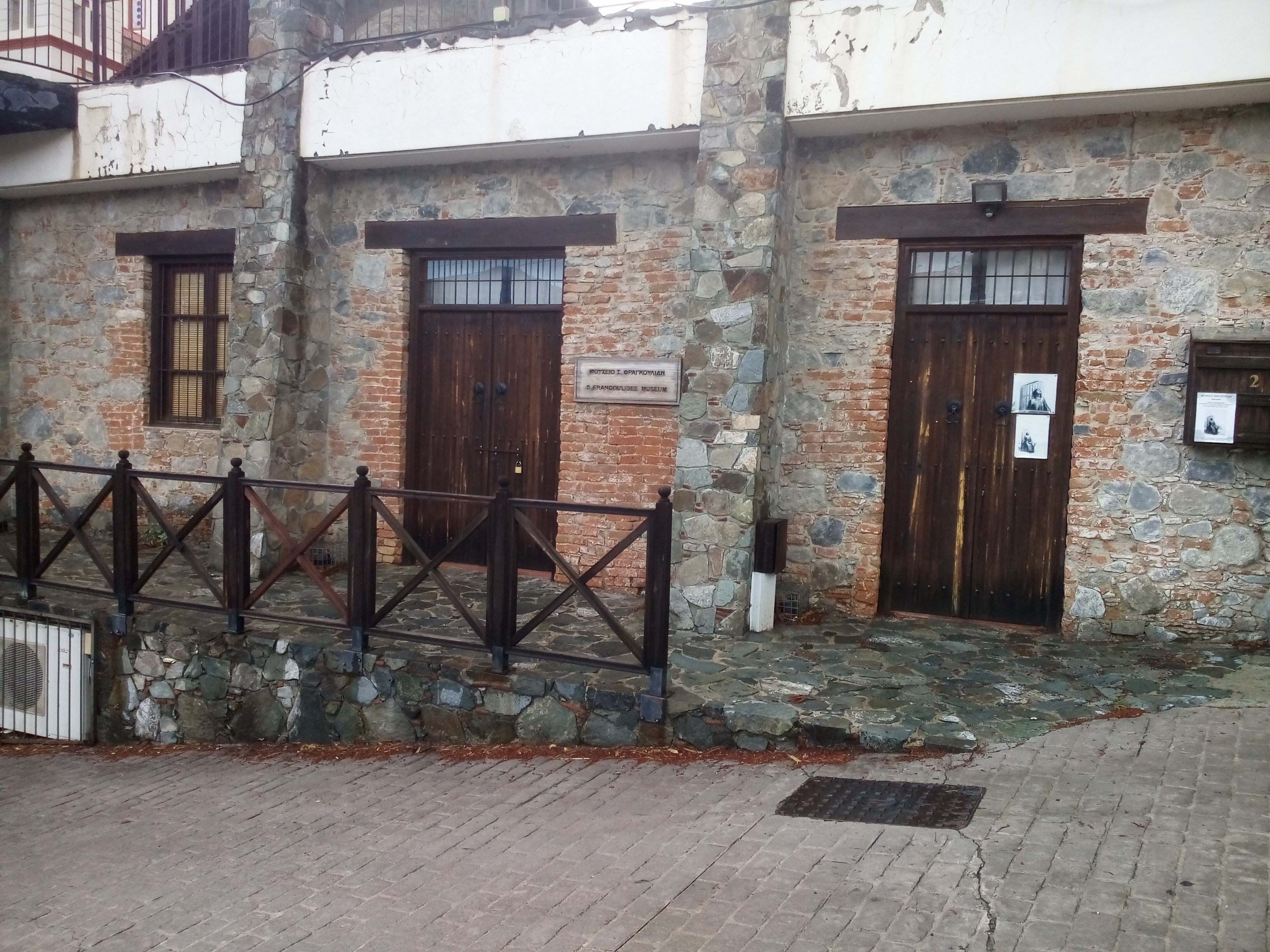 Frangoulides Museum, Agros, Cyprus